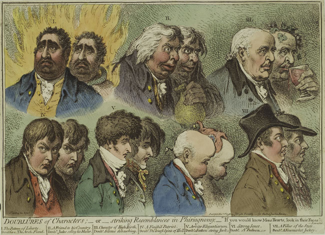 DOUBLÛRES of Characters; ? or ? striking Resemblances in Phisiognomy. ? ?If you would know Men's Hearts, look in their Faces?. Published by John Wright for the Anti-Jacobin Review and Magazine: November 1, 1798 Etching and soft ground etching, with roulette, hand-colored.